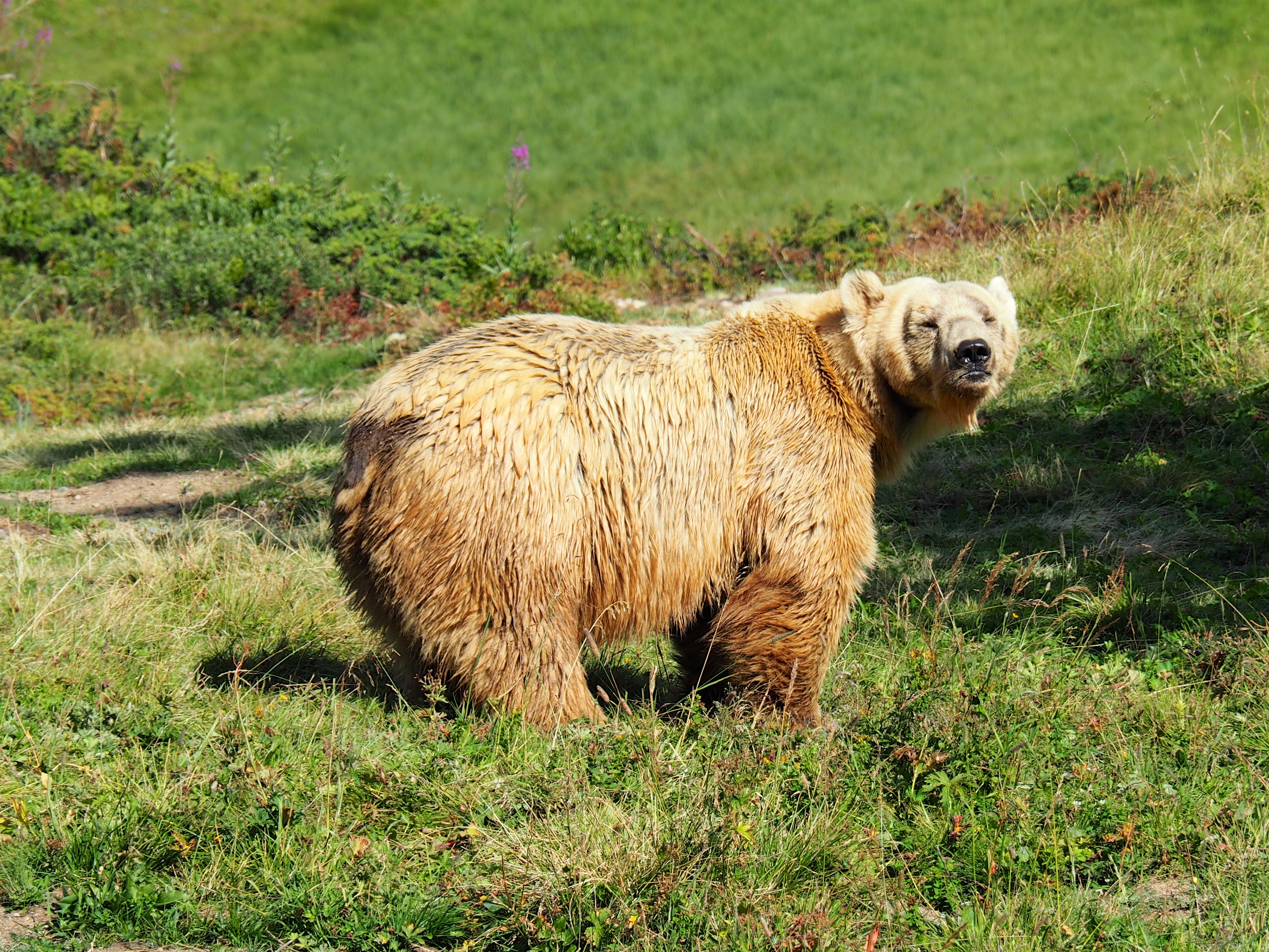 Brown bear "Napa" at Arosa Bärenland (bear sanctuary in Switzerland)